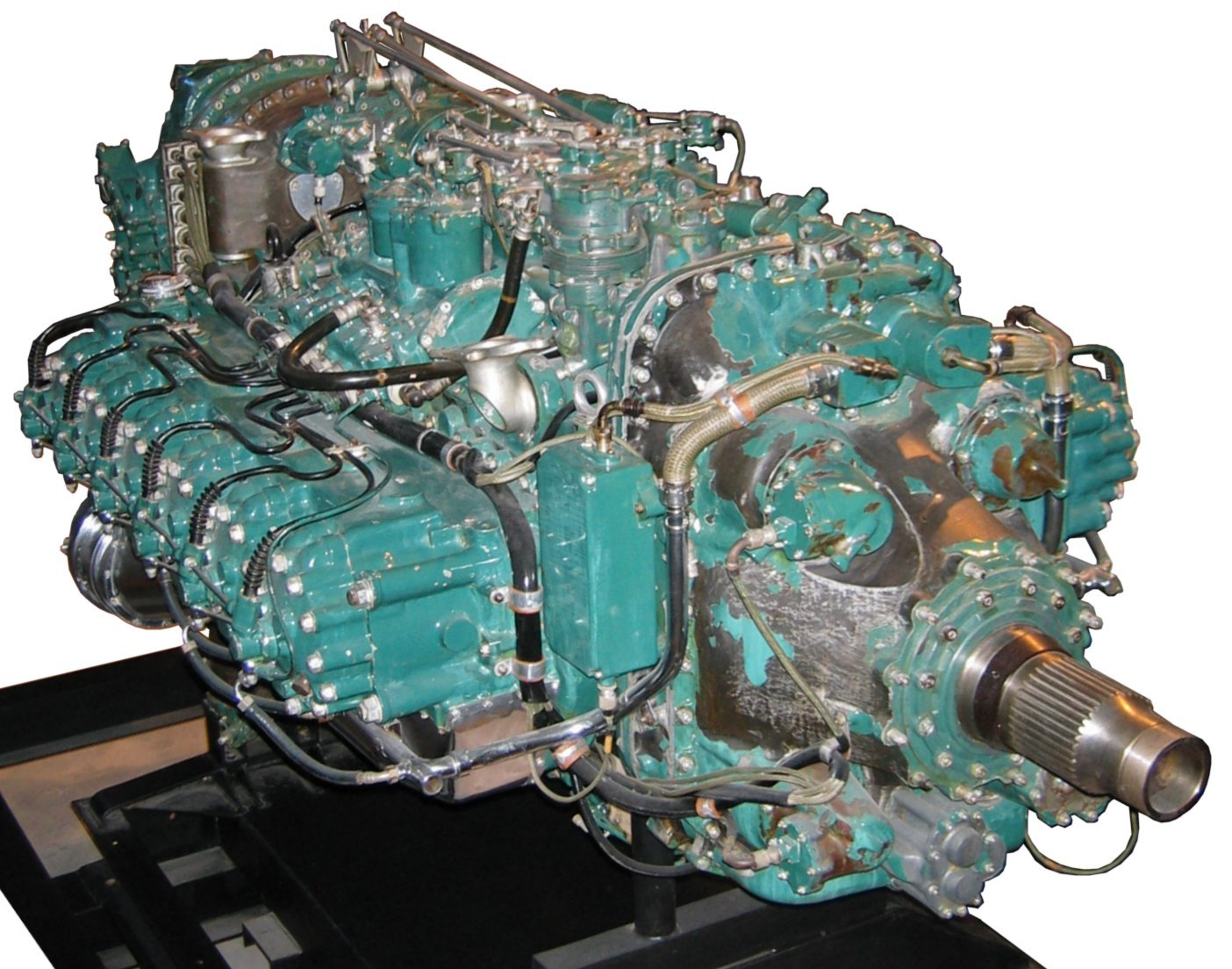 The Napier Nomad compound engine at the National Air and Space Museum, United States.